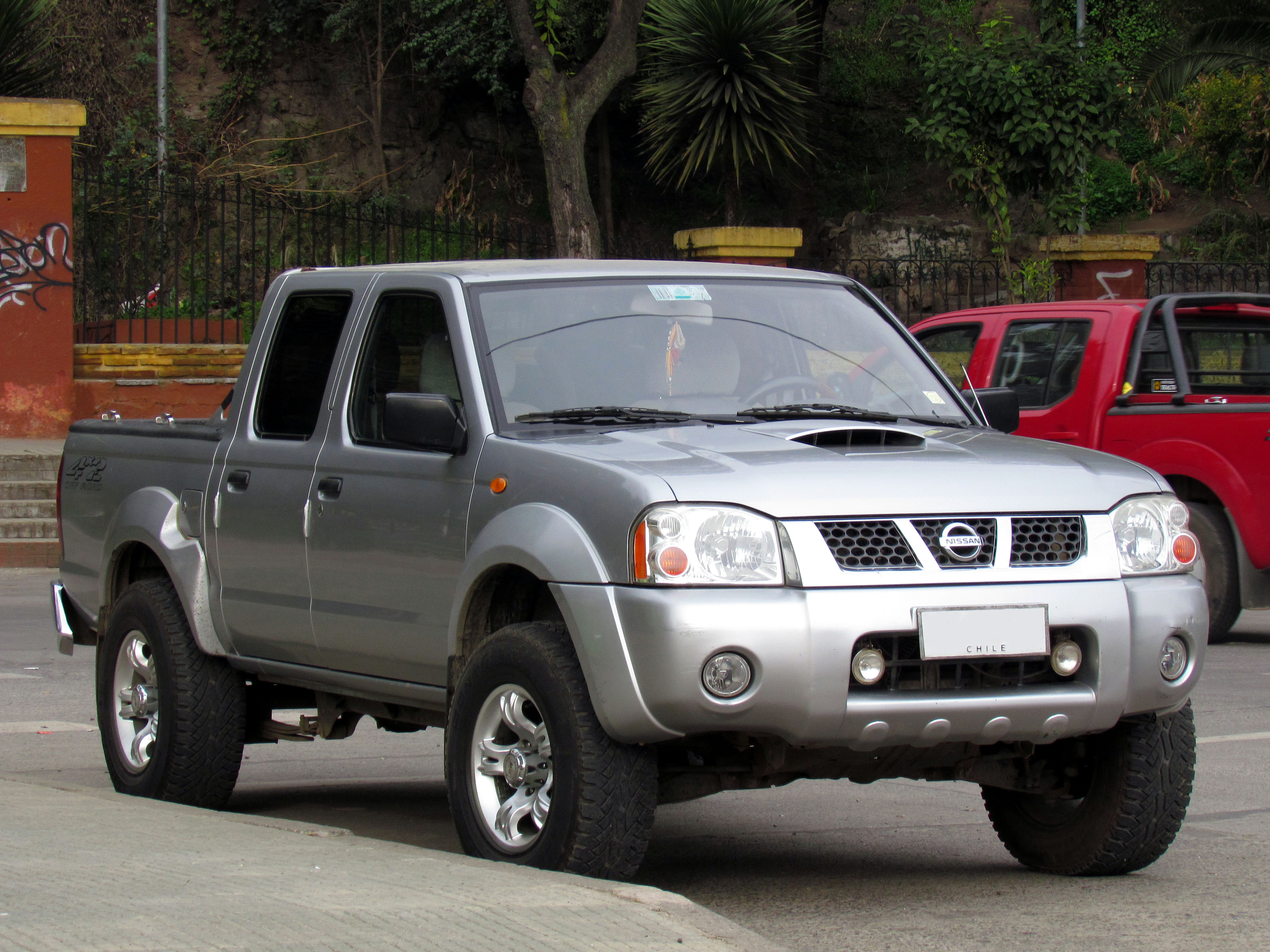 For several years this was the most popular pickup here